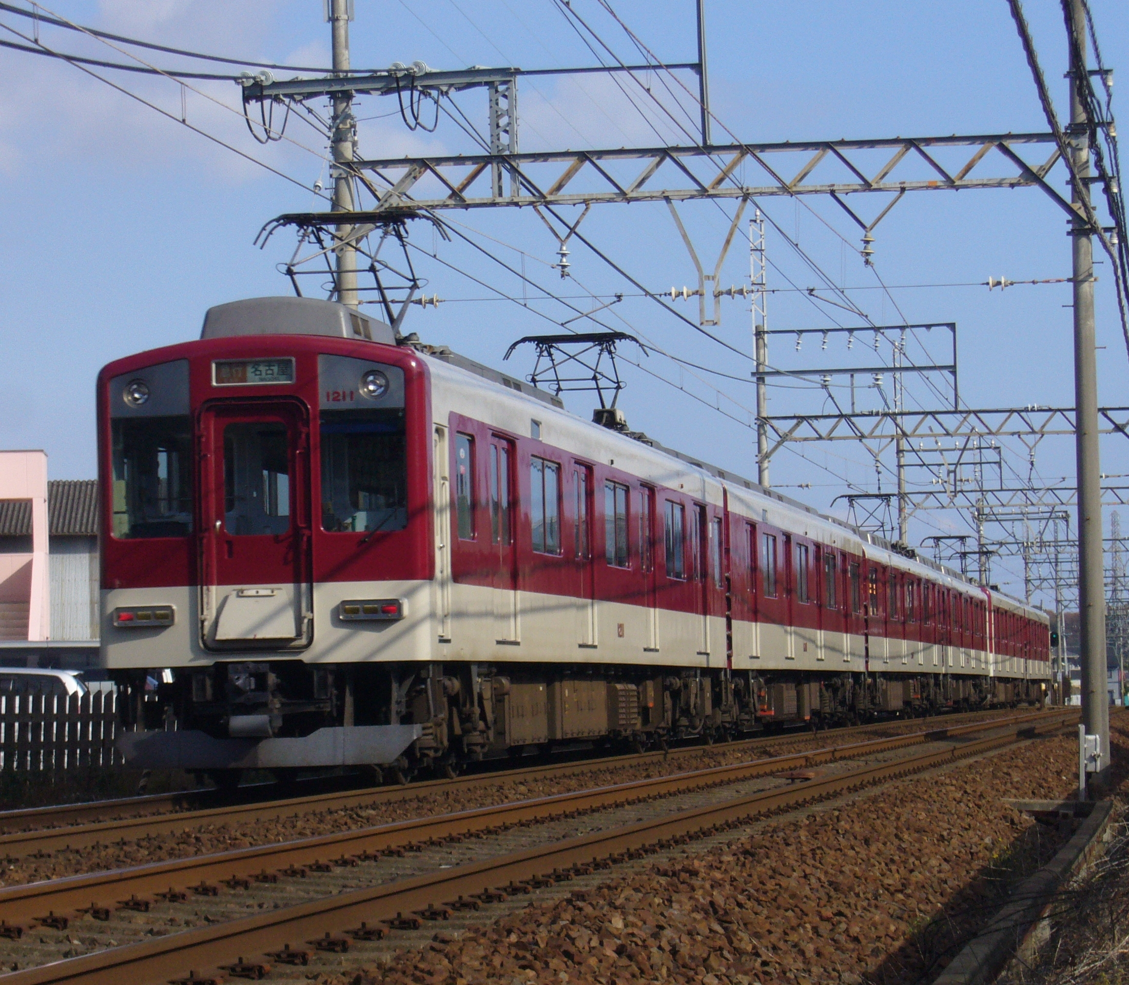 This is a picture of 1211 formation,Kintetsu 1200 series.I took this picture between Hisai station and Minamigaoka station.